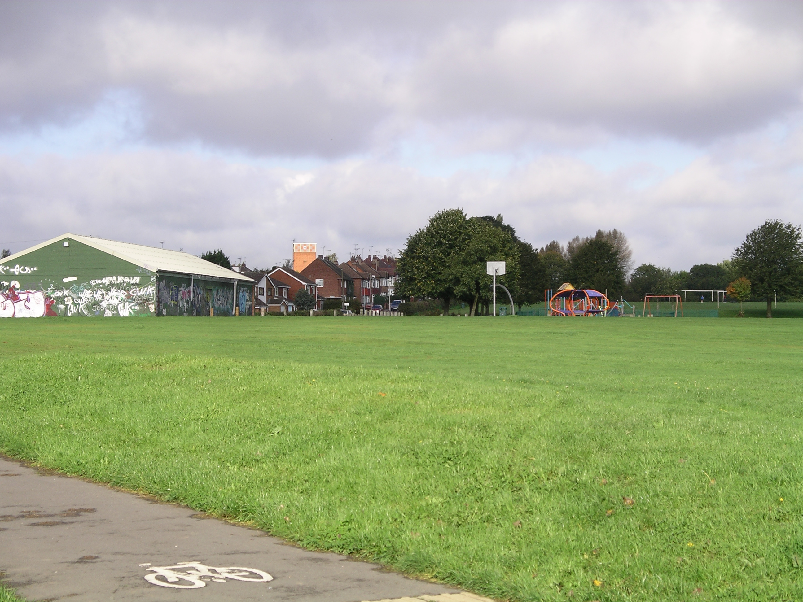 Photo taken by me on 19 October 2006 of Whitley Common, Whitley, Coventry, England.